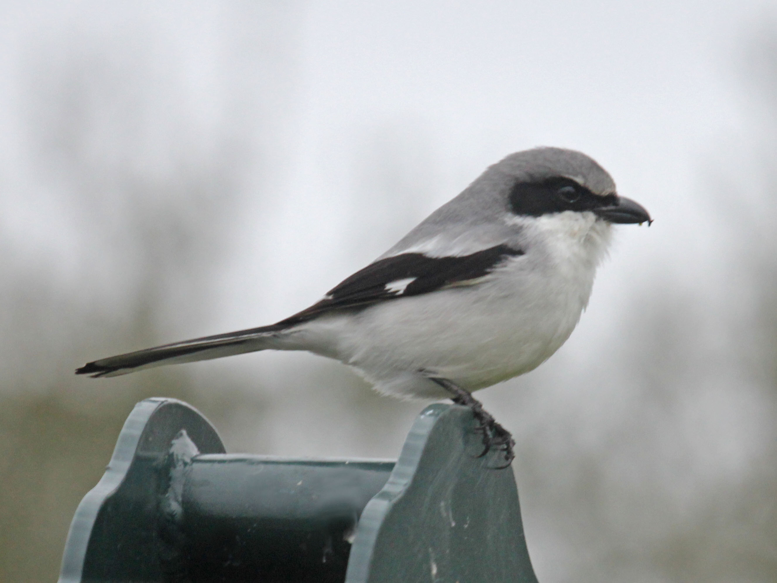 Loggerhead Shrike (Lanius ludovicianus) - Royal Palm Beach, Florida